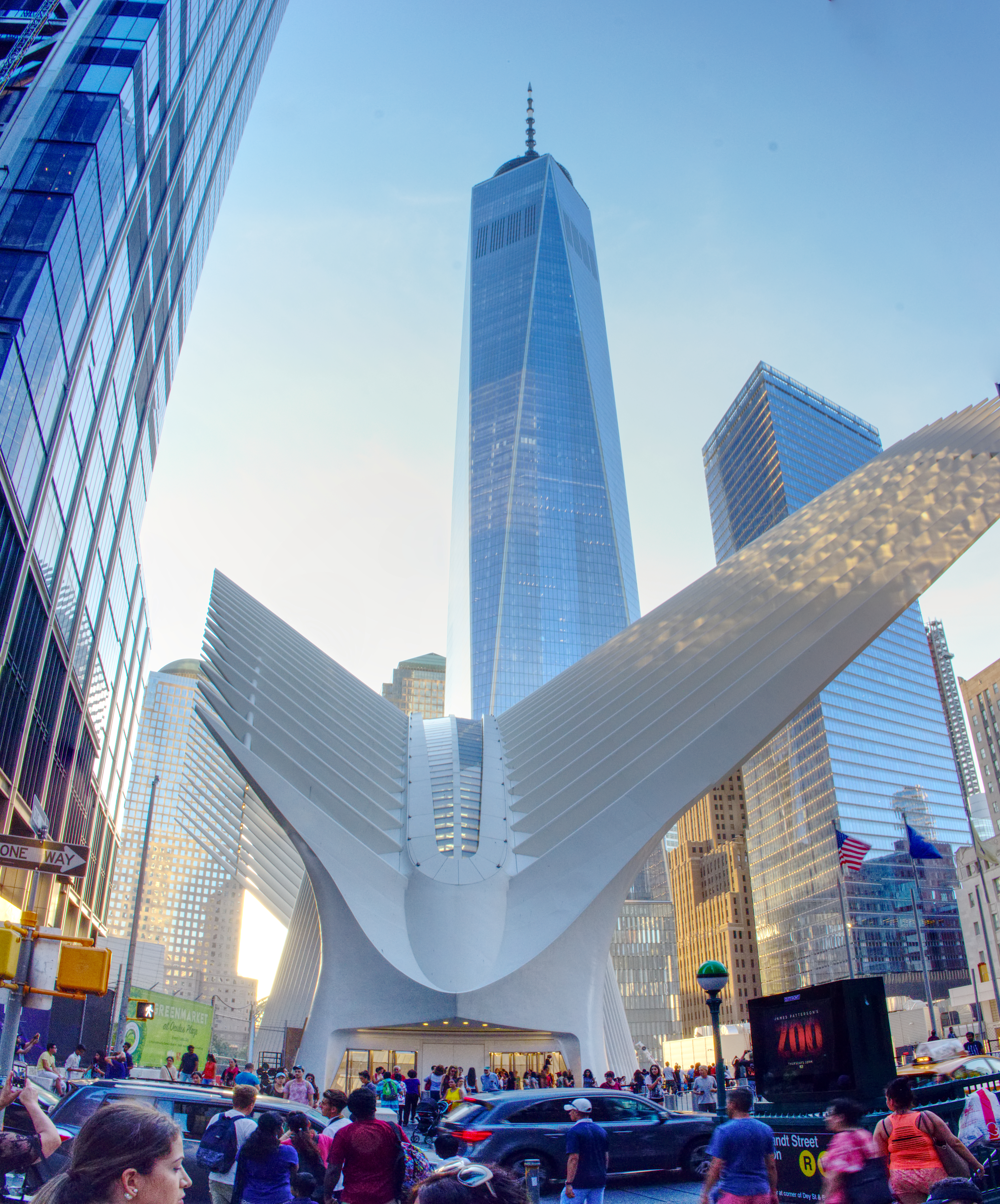 This picture was taken on a busy day near Path Station